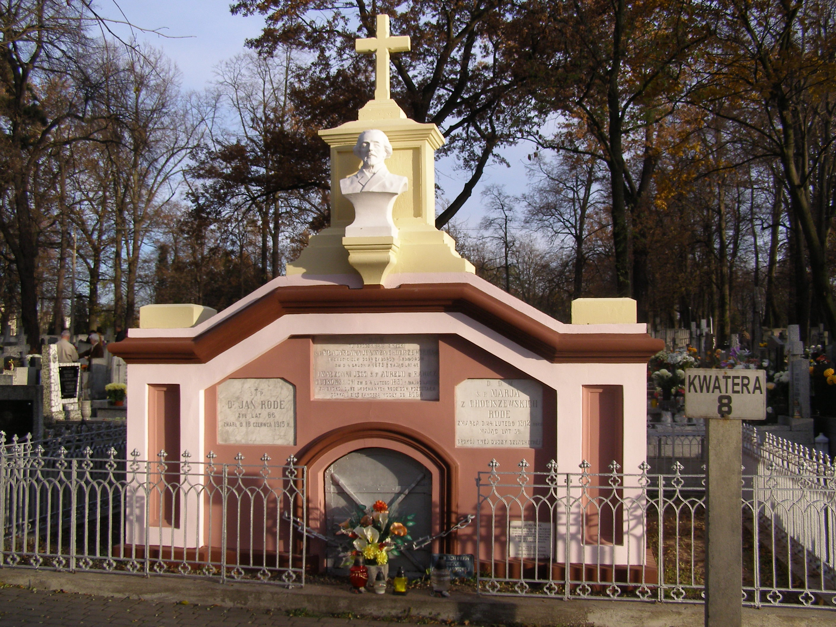 Grave of the Chociszewski family, as well as Dr. Jan Rode, Tomaszow Mazowiecki, Old Catholic Cemetery